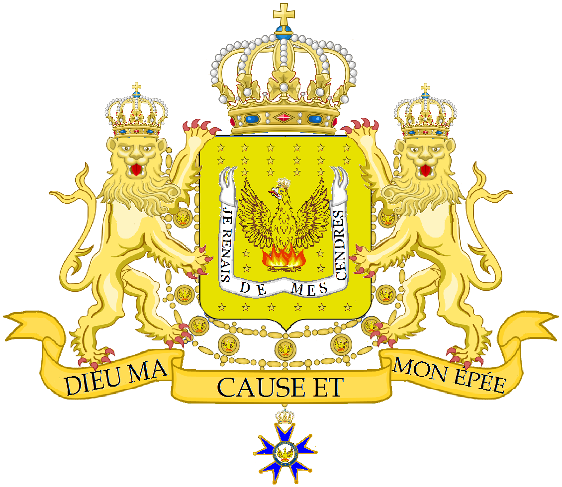 Coat of Arms of First Haitian Kingdom. Used from 1811 to 1820.